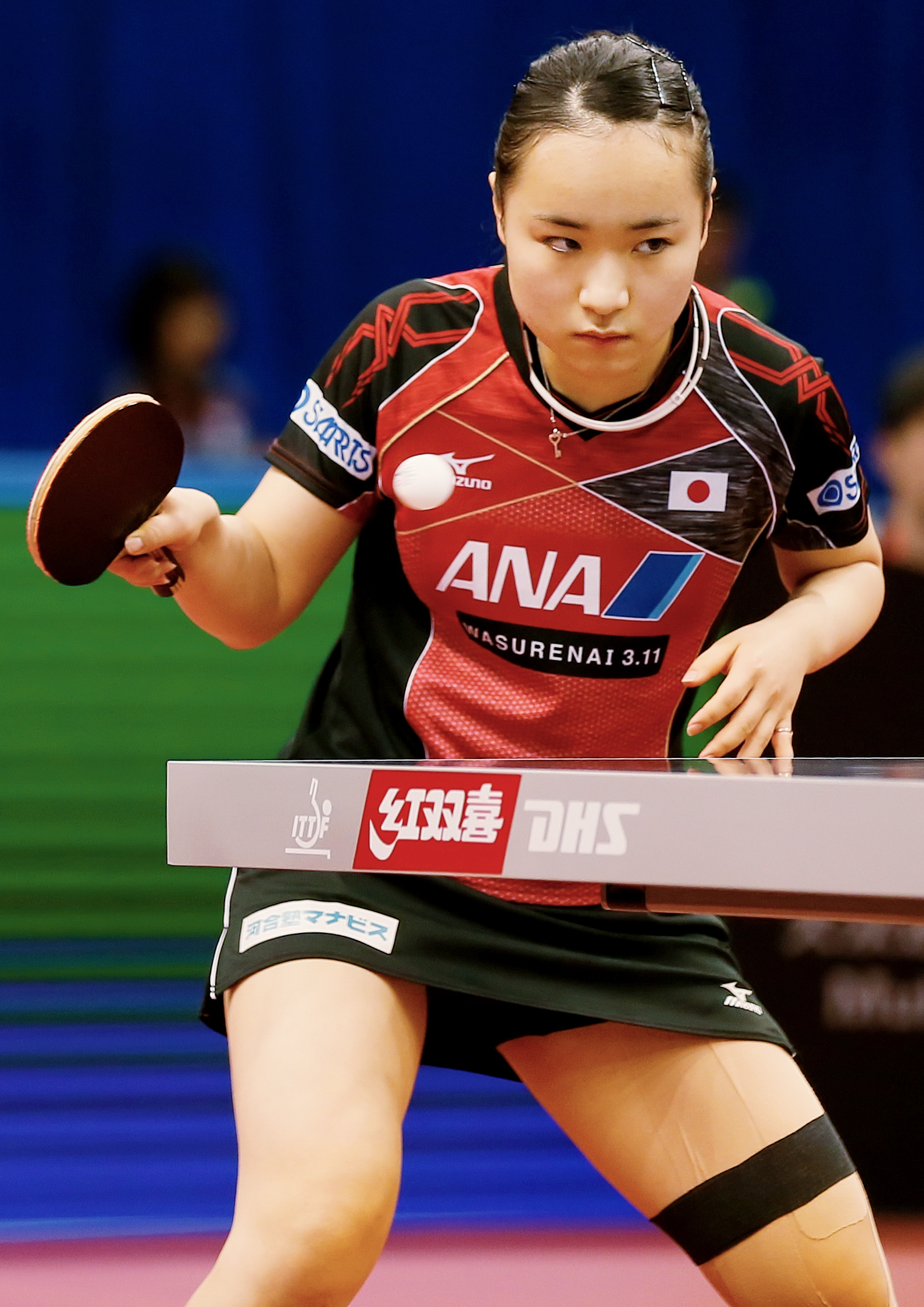 Mima Ito at 2017 Asian Table Tennis Championships.